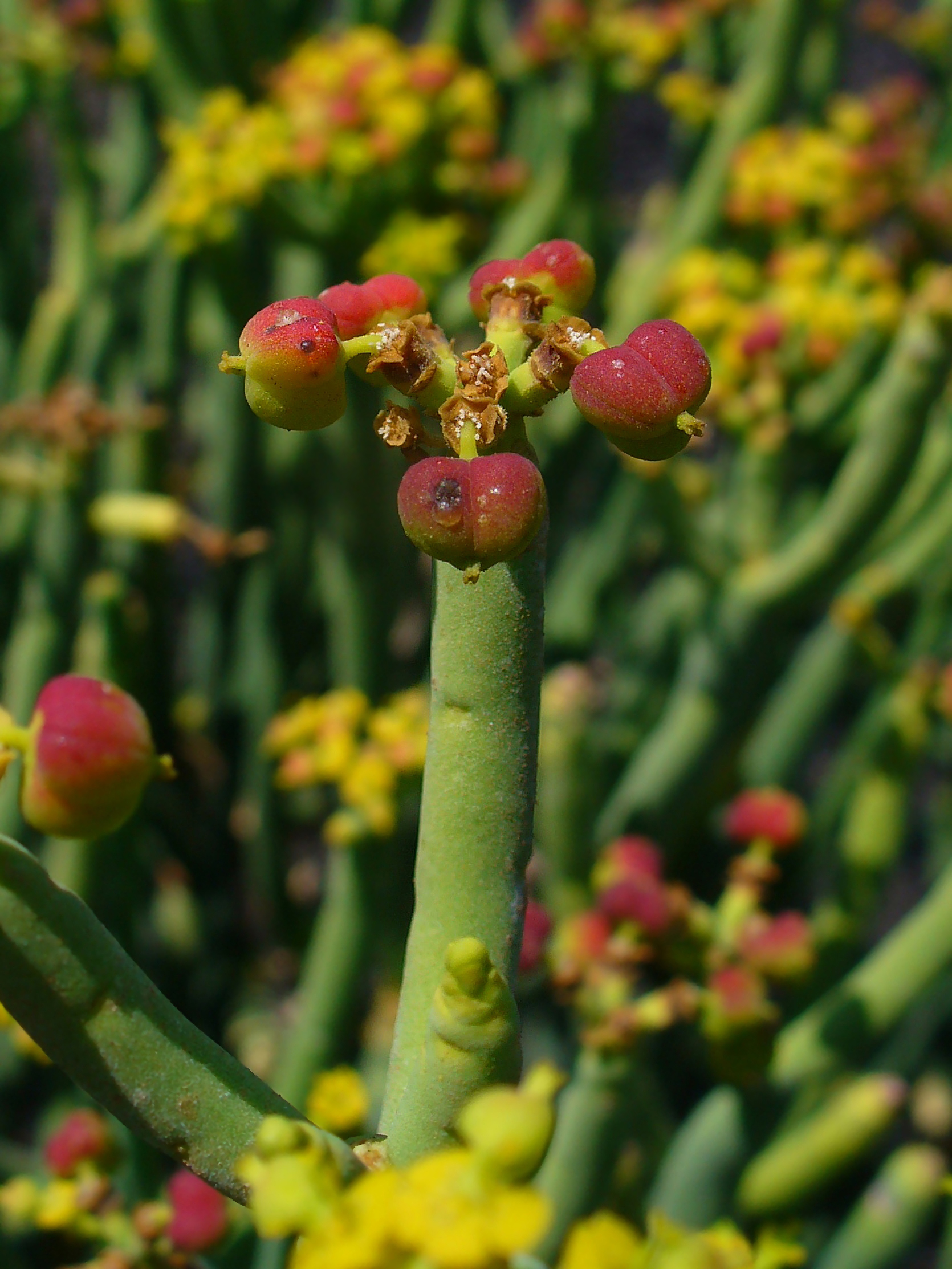 Leafless Spurge, Fruits; Jardin de Cactus, Guatiza, Lanzarote, Canary Islands, Spain.